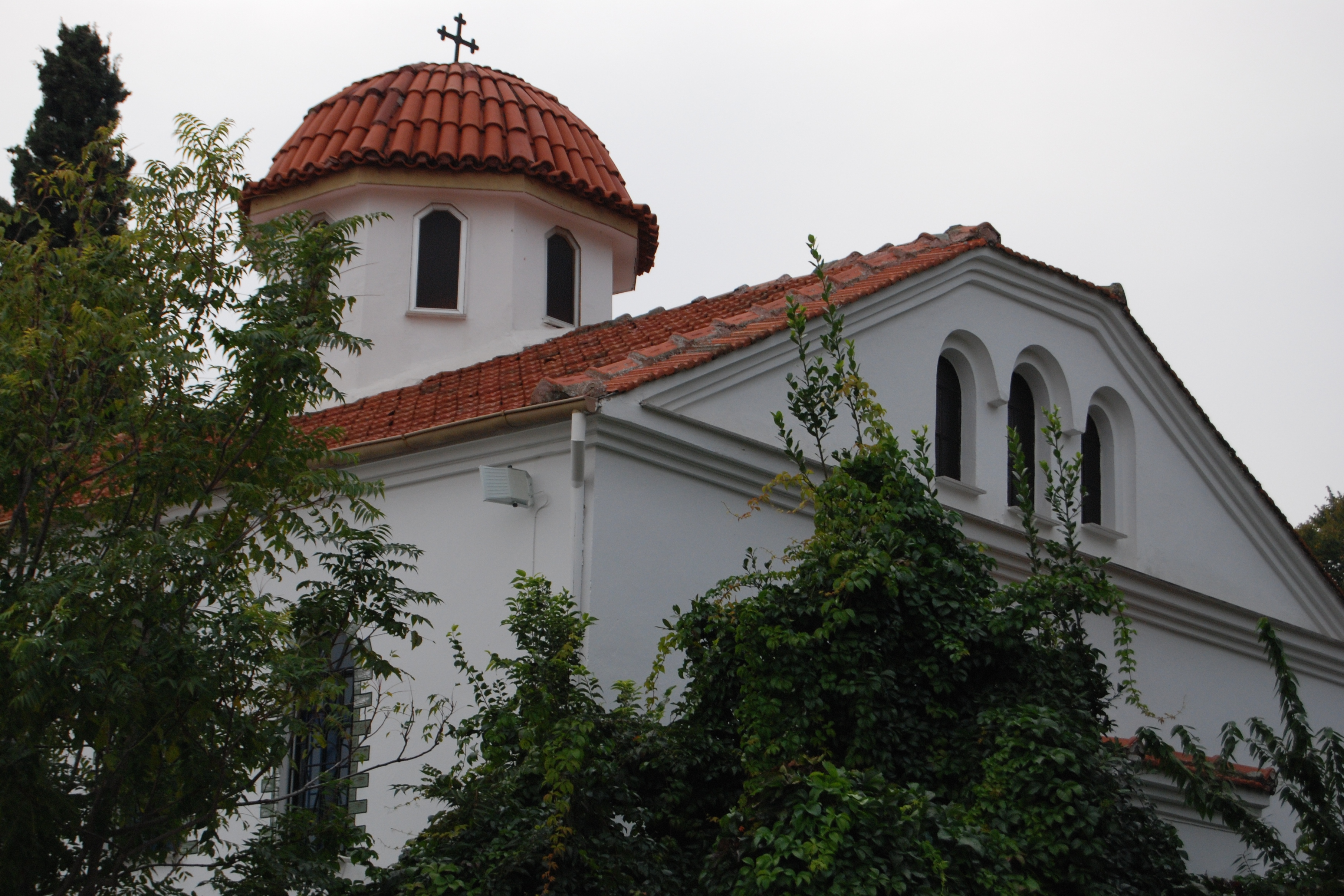 Saint Menas and Saint Kyriaki Church, Serres